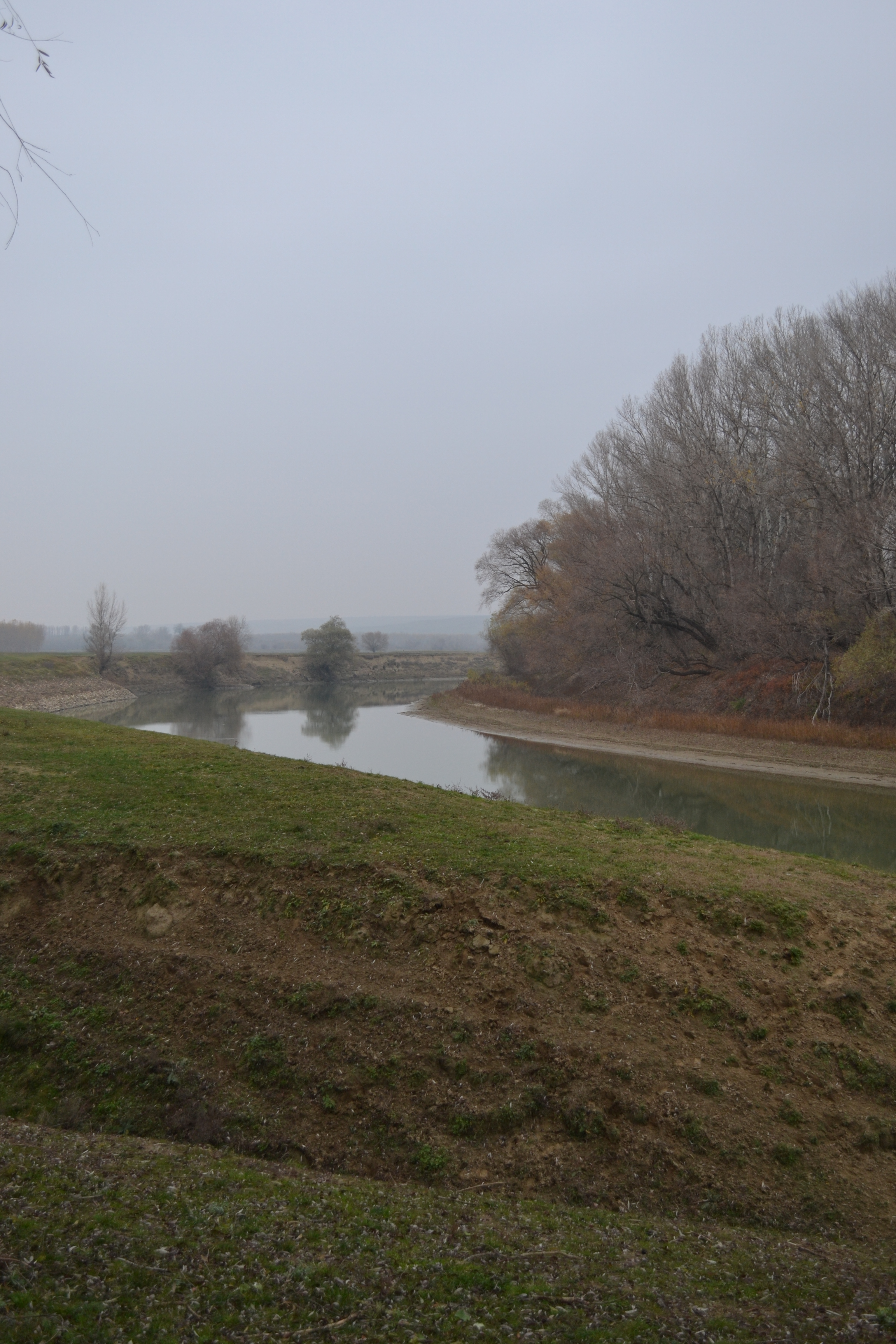 Pruth river near Stănilești, Vaslui County